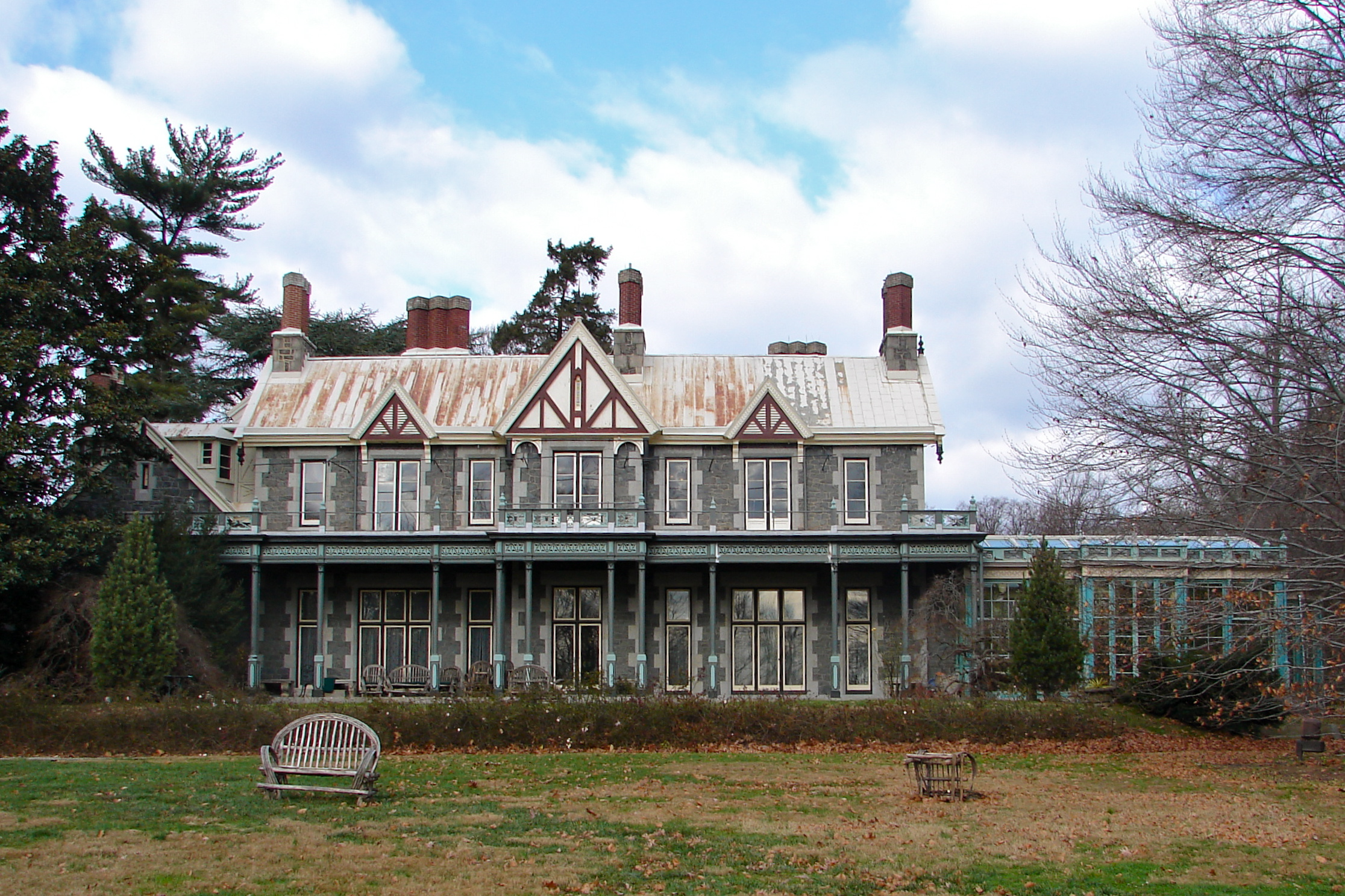 Rockwood, house built in 1850s, on the National Register of Historic Places since July 12, 1976. At 610 Shipley Rd., Wilmington, Delaware